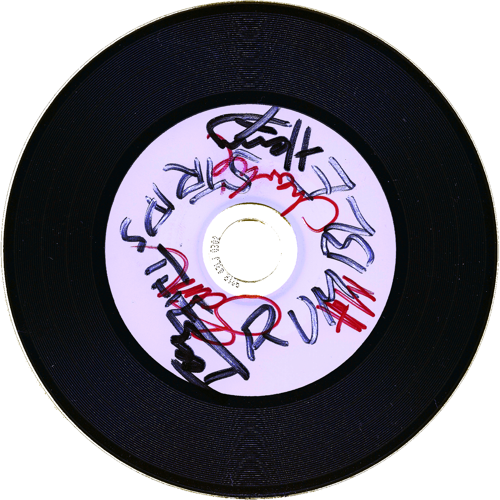 The Rumble Strips sold this CD on their Tour in 2010. This copy is signed by all band members.